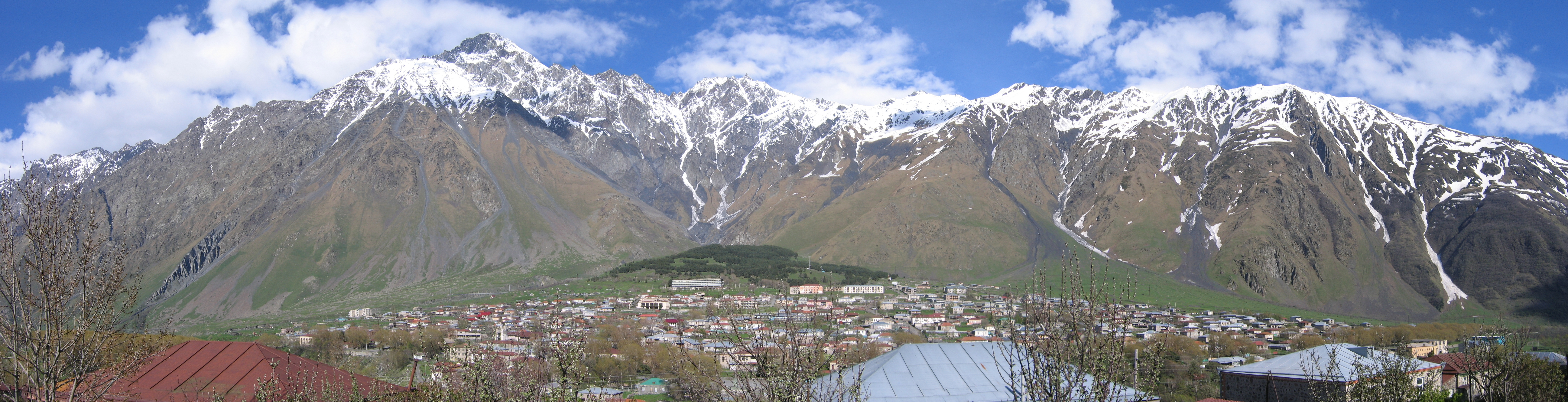 A Panoramic view of Kazbegi